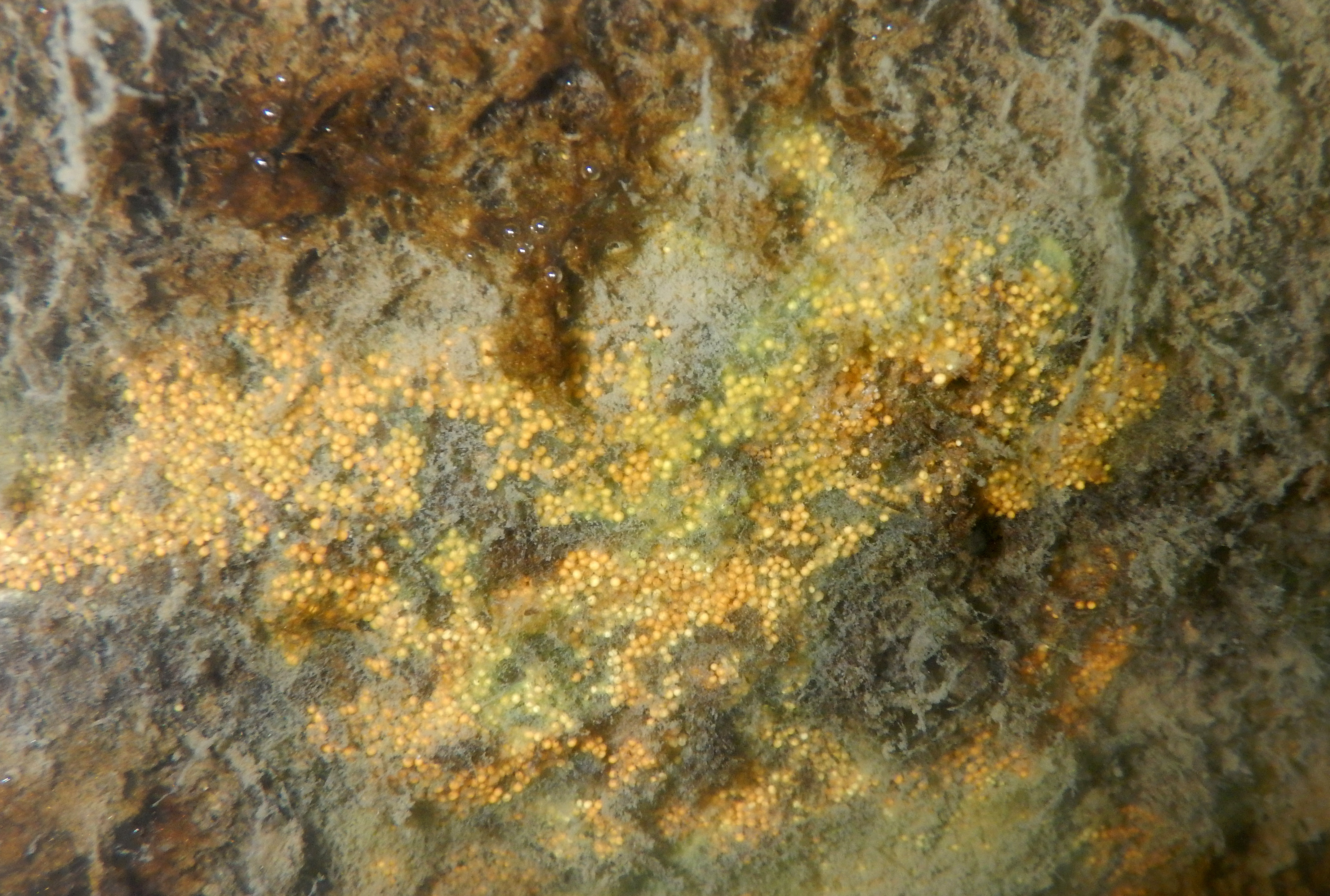 Gemmules of the freshwater sponge Spongilla lacustris (here in northern France) = resistant form of metabolic dormancy and appear in autumn.